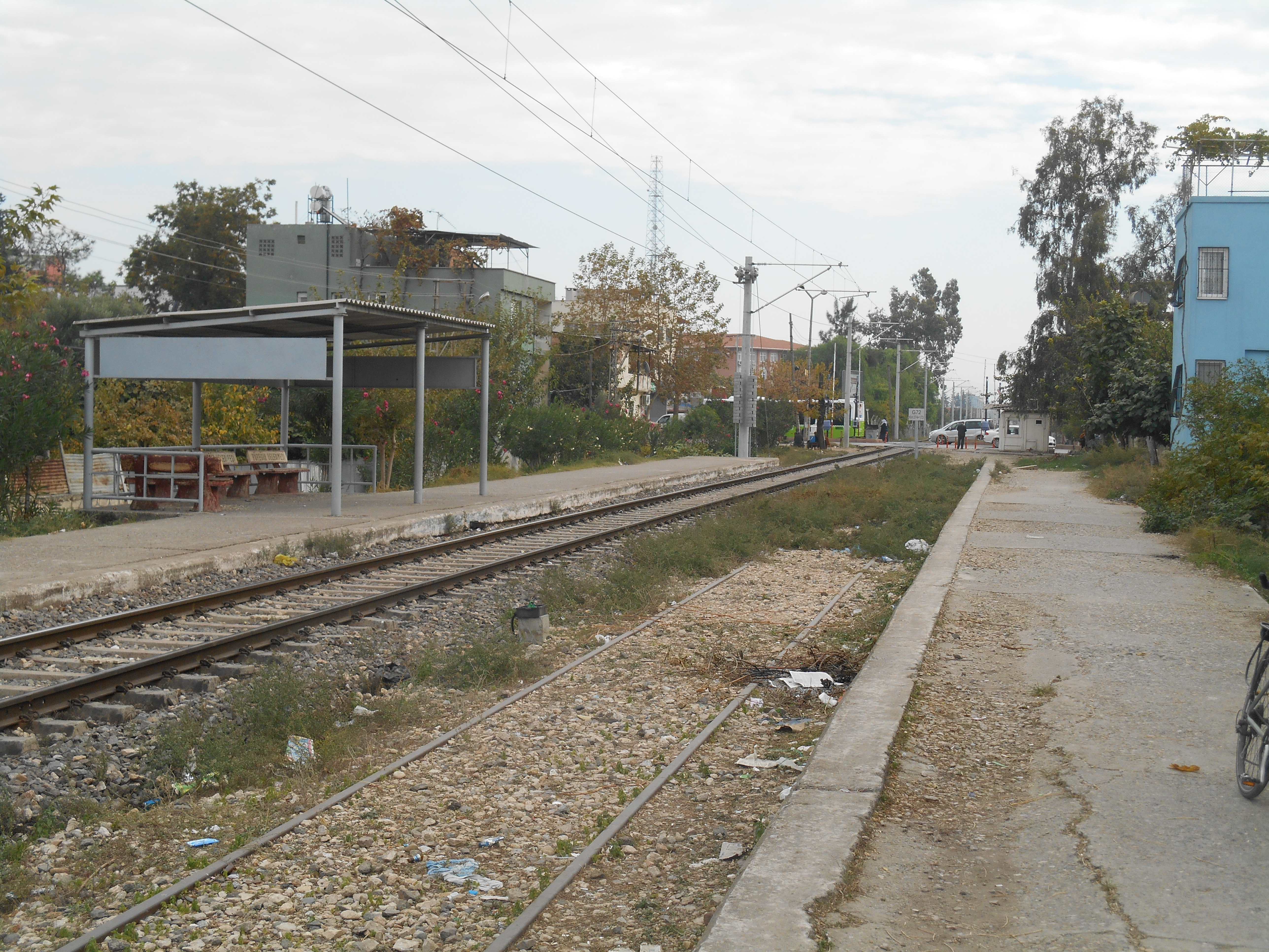 Station view